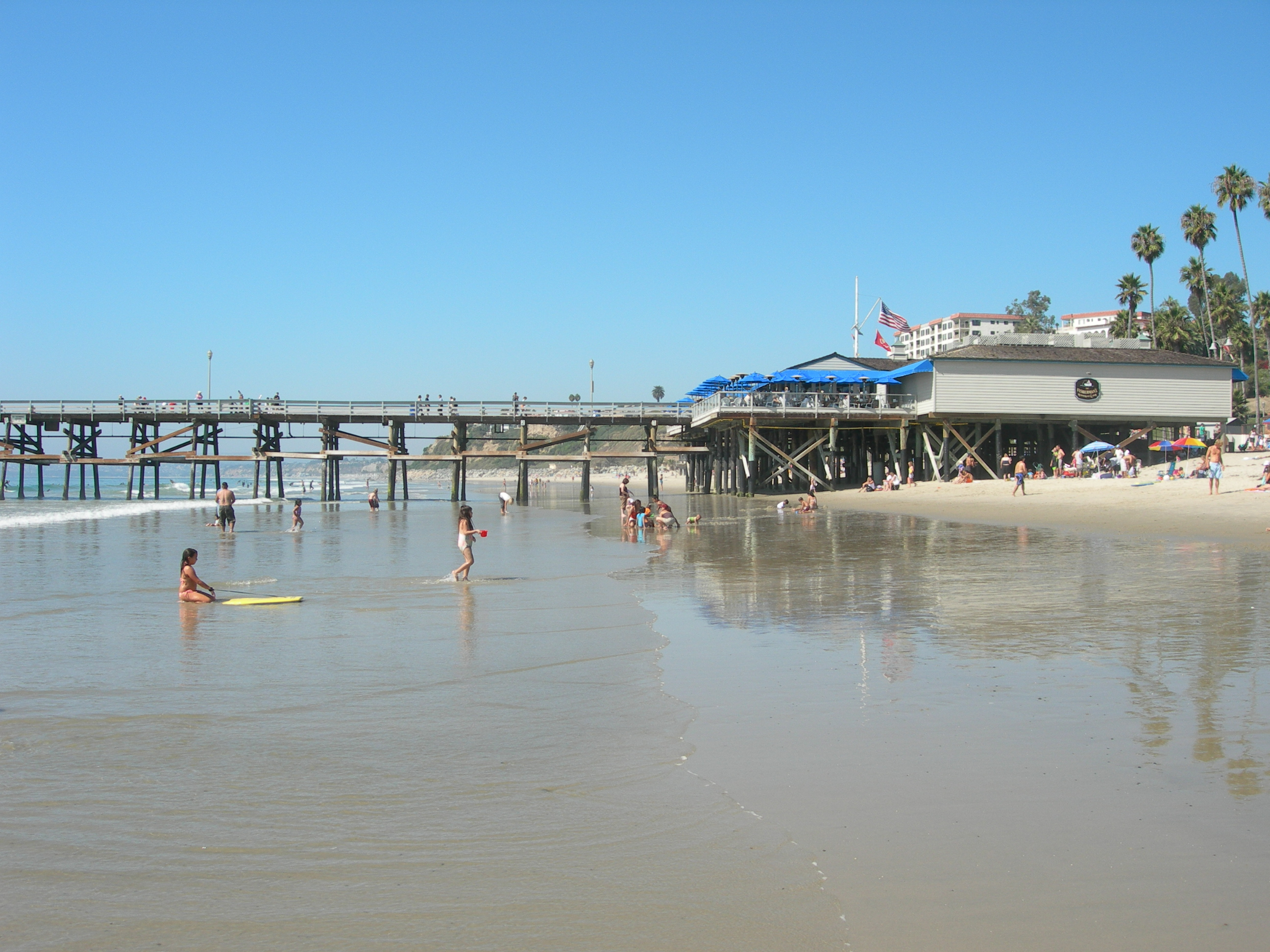 A view of the pier in San Clemente, California.